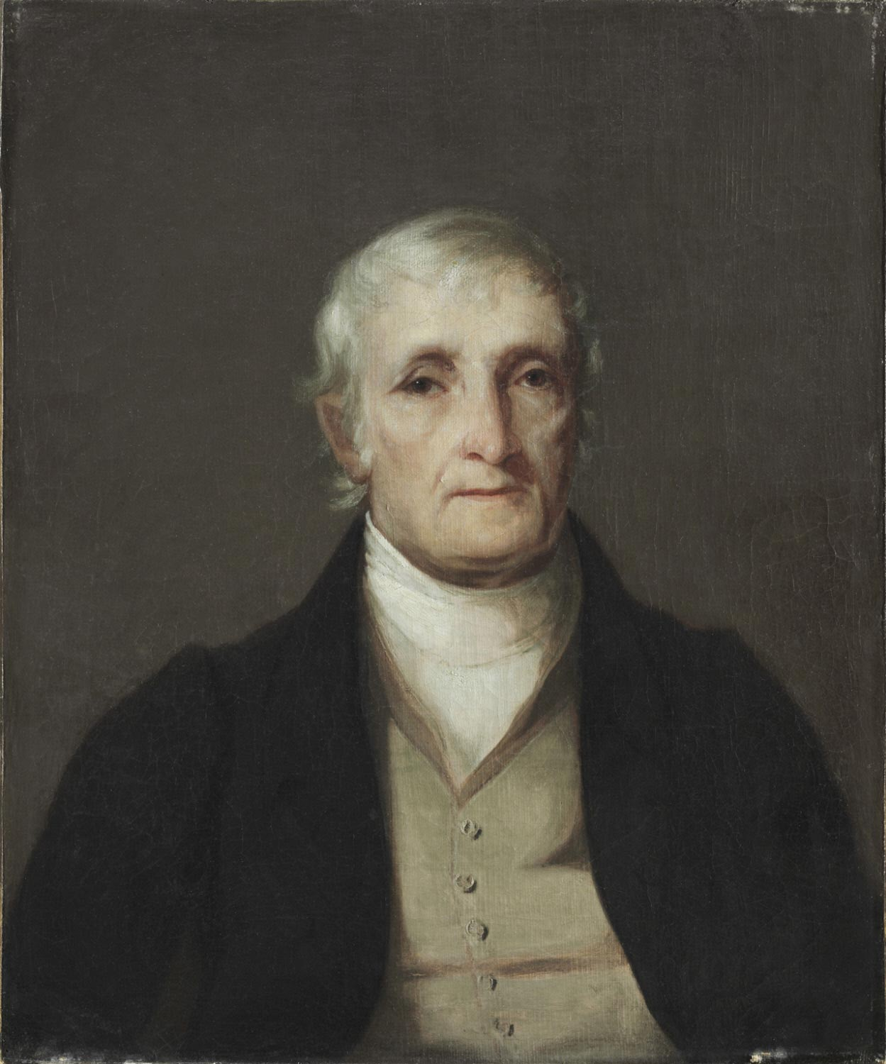 Portrait of John McMullin by Joseph Biays Ord, 1834, Philadelphia Museum of Art.